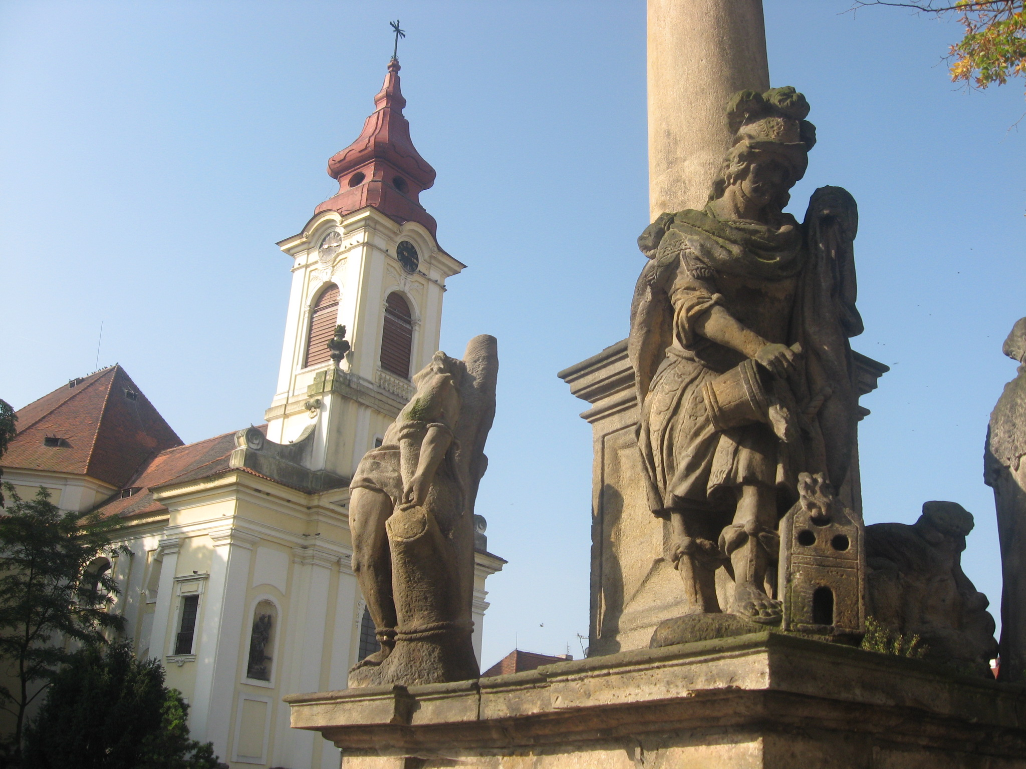 Church of the Assumption in Postoloprty with a part of the Marian column in forefront, Louny District, Czech Republic